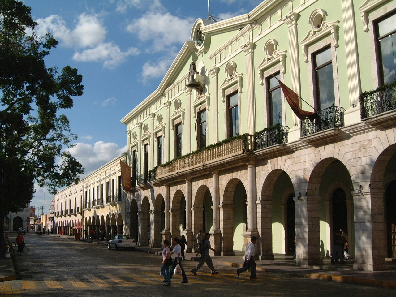 The Governor's Palace on the main square, Arcade, Mérida Yucatán México.